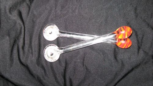 Picture Of glass or "Pyrex" "Blades"